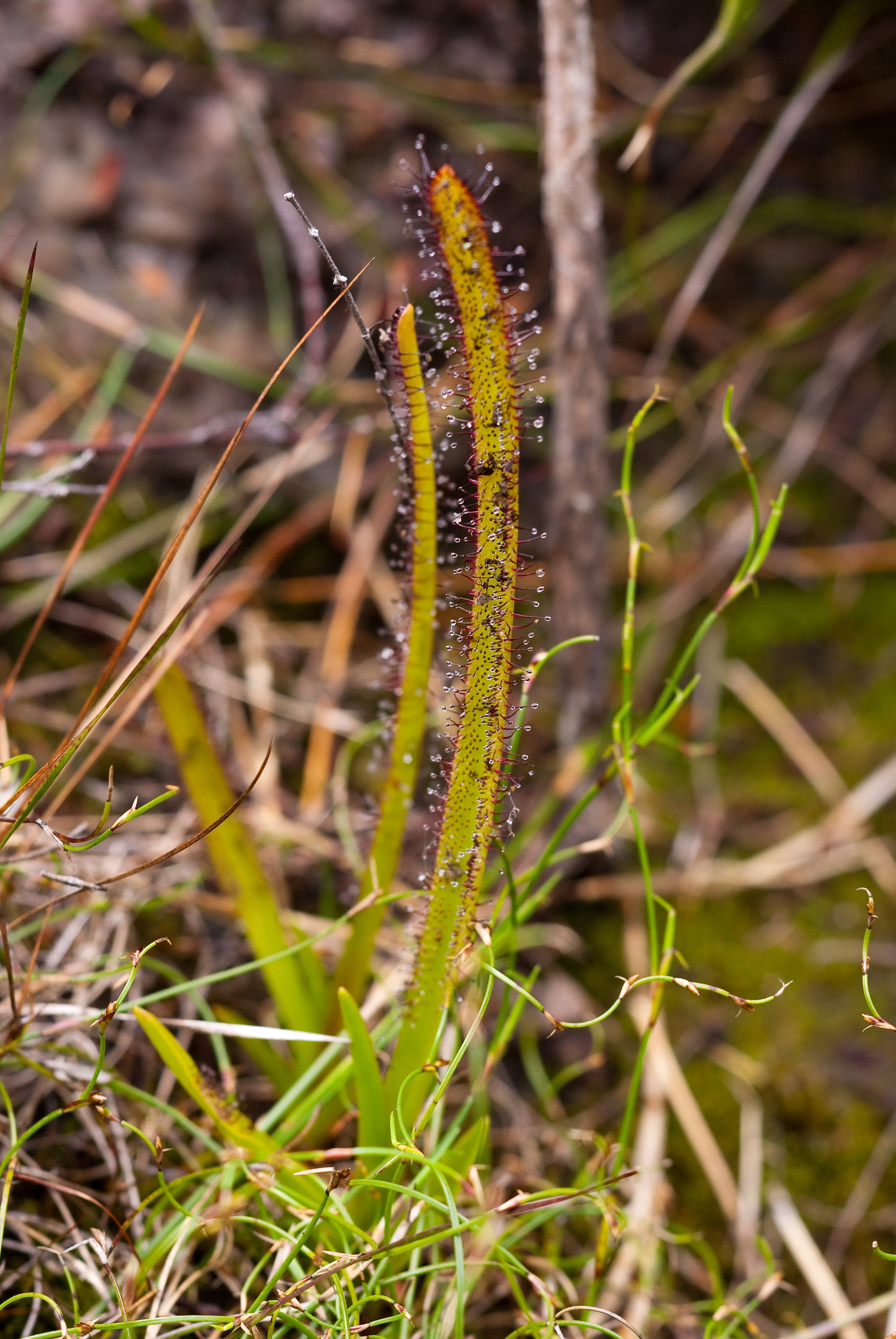 Drosera murfetii growing near Lake Pedder, Tasmania.